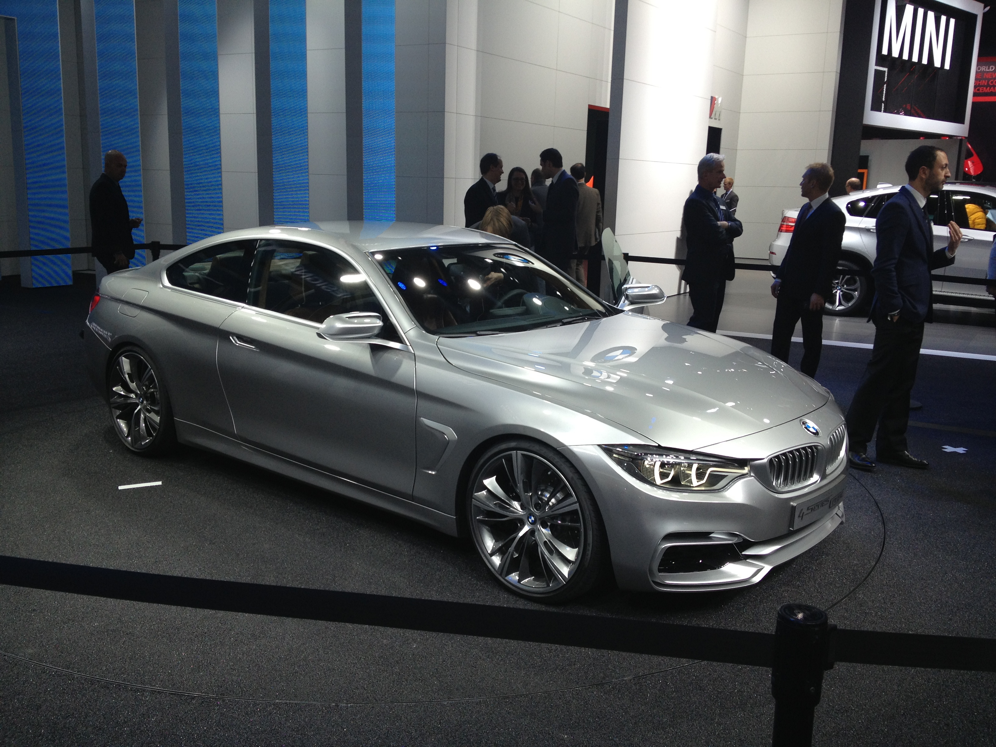 2013 North American International Auto Show Detroit, Michigan